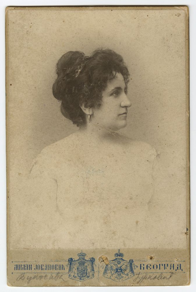 Vukosava Jurković was an actress at the Serbian National Theatre in Novi Sad and Royal Serbian National Theatre in Belgrade. She played the role of Karađorđe's mother in the first Serbian silent film, "Life and Deeds of Immortal Vožd Karađorđe", in 1911.